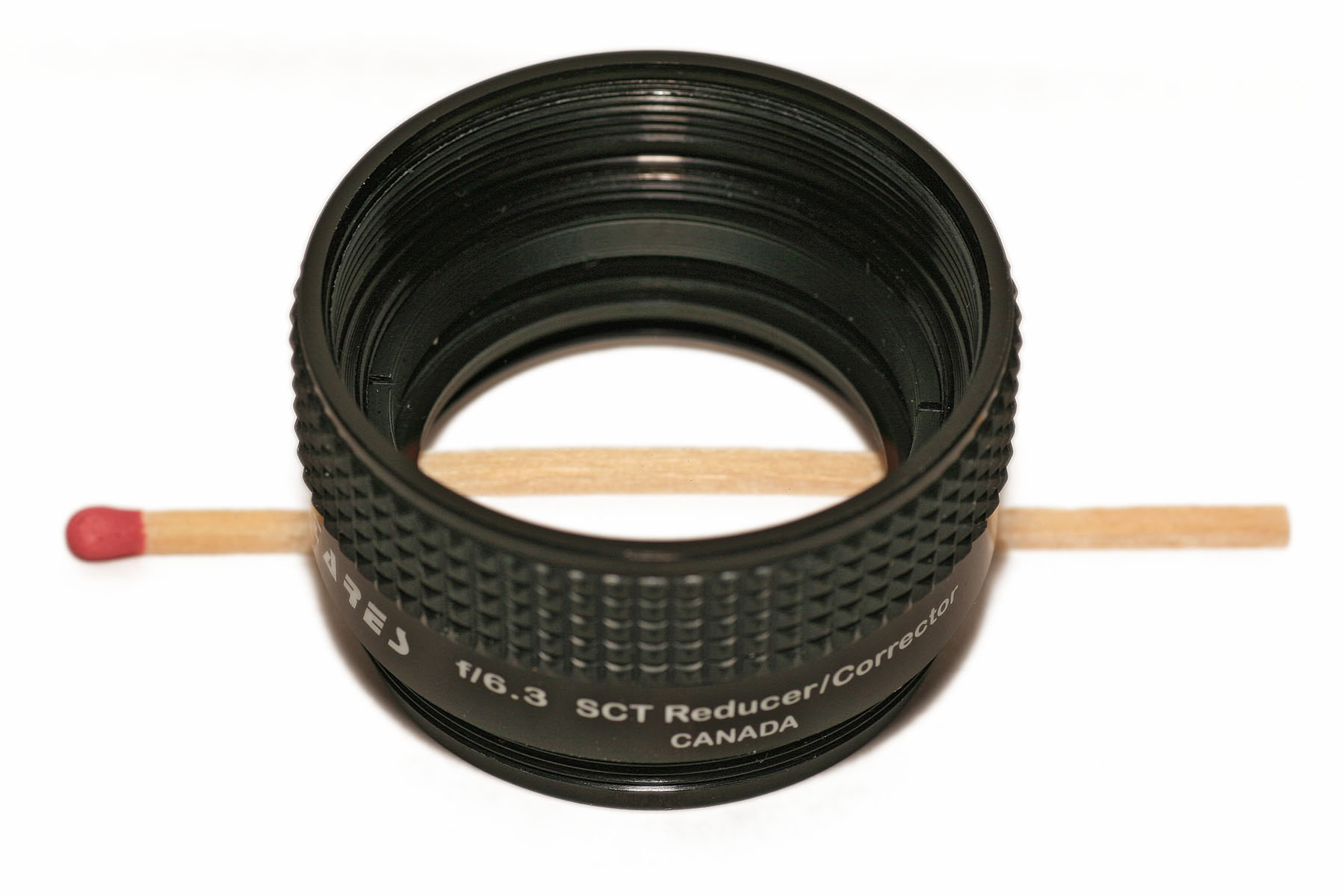 A shapley lens with a super-size match to show the fraction